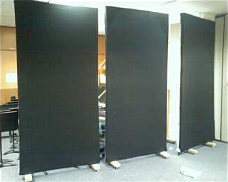 Photo of several cloth flats by User:KeepOnTruckin